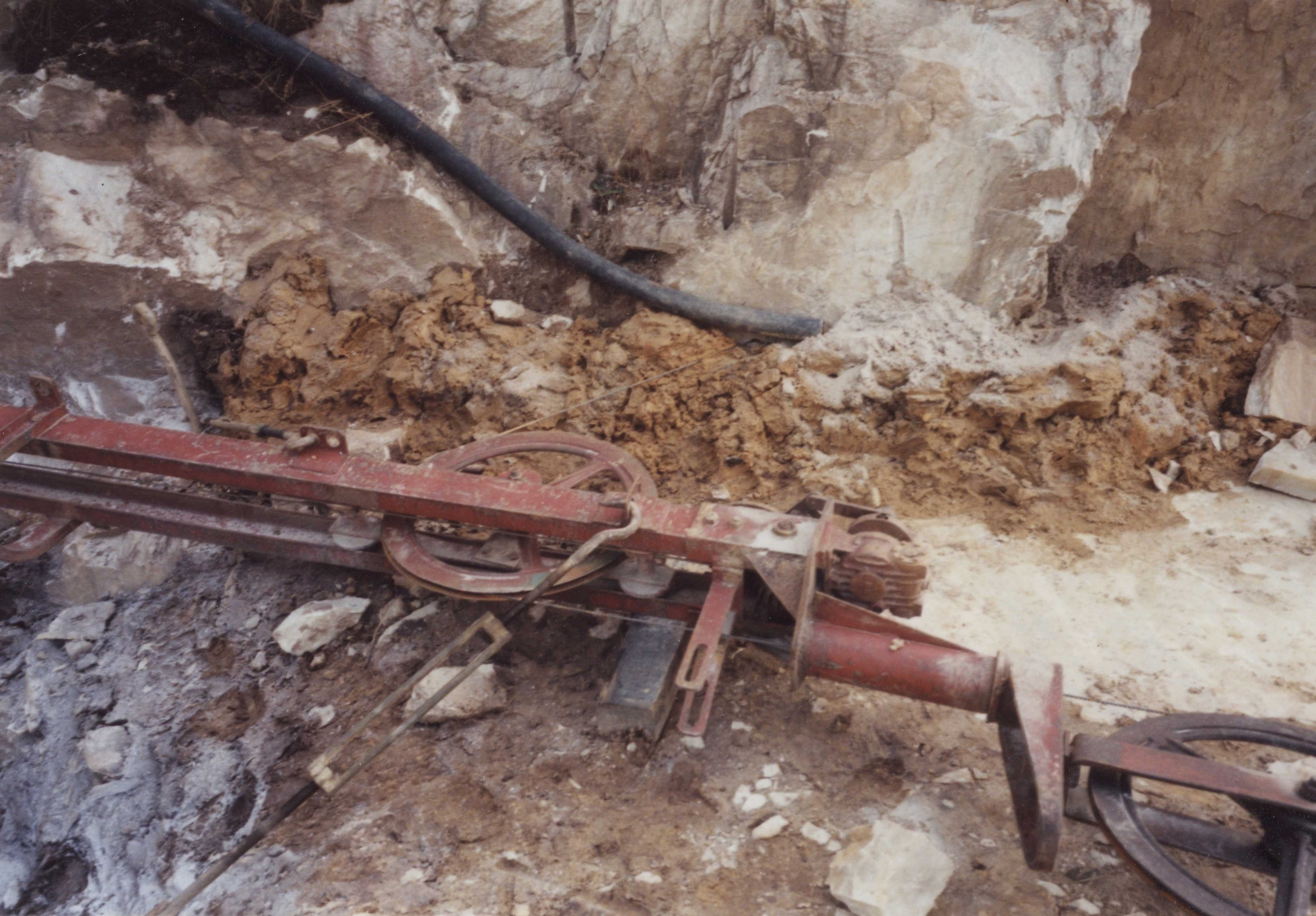 helicoidal wire saw in a quarry